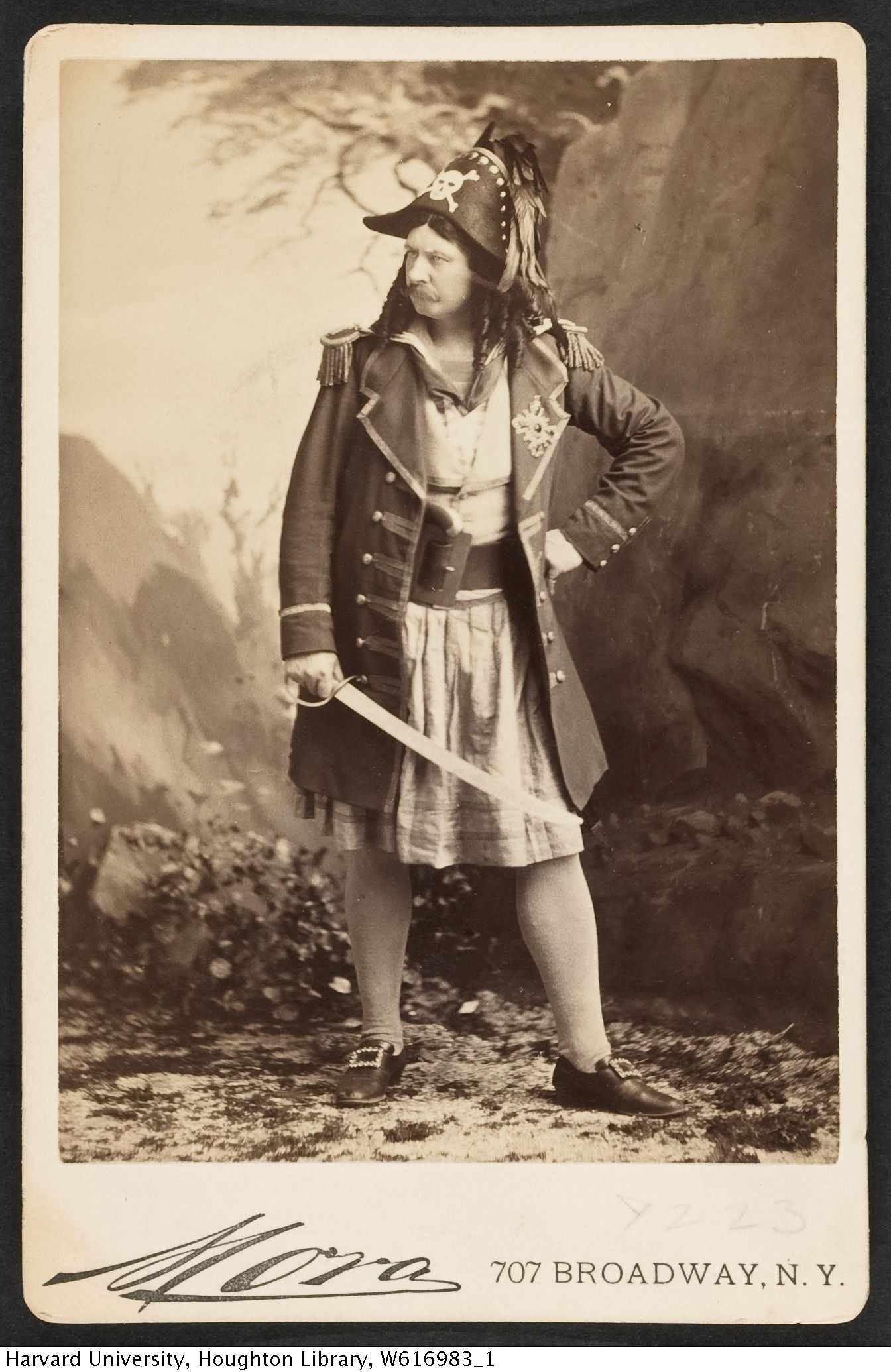 Cabinet card image of Irish American actor and opera singer John Clark (1841-1906), who performed under the stage name Signor Brocolini. In character as "The Pirate King". TCS 1.3651, Harvard Theatre Collection, Harvard University